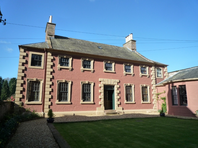 29 Irish Street and 92 Whitesands